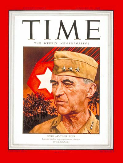 Time magazine, Volume 45 Issue 5. Front cover is an illustration of General Walter Krueger.